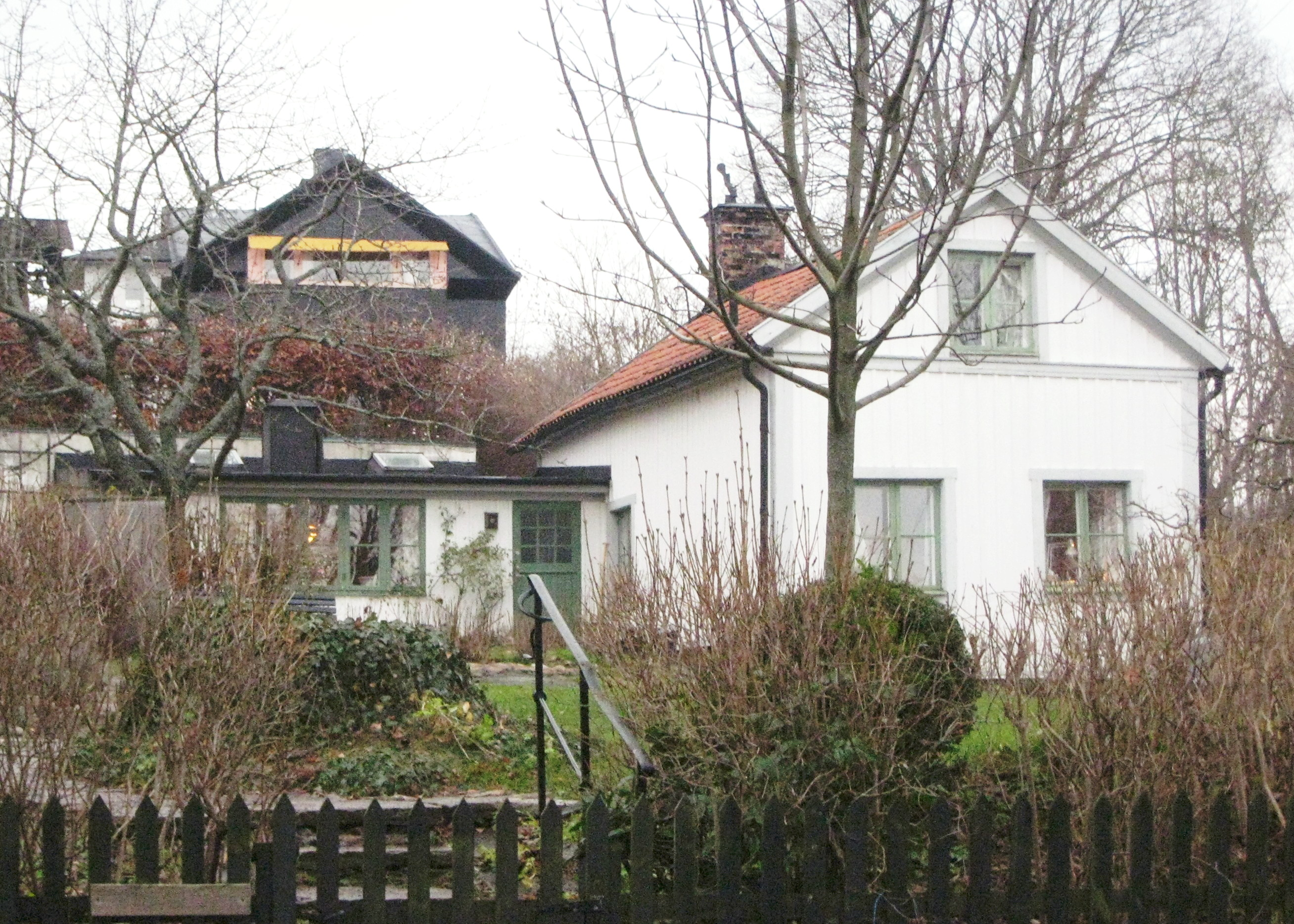 Villa Axelsberg by Nils Tesch, in the background Villa Klockberga